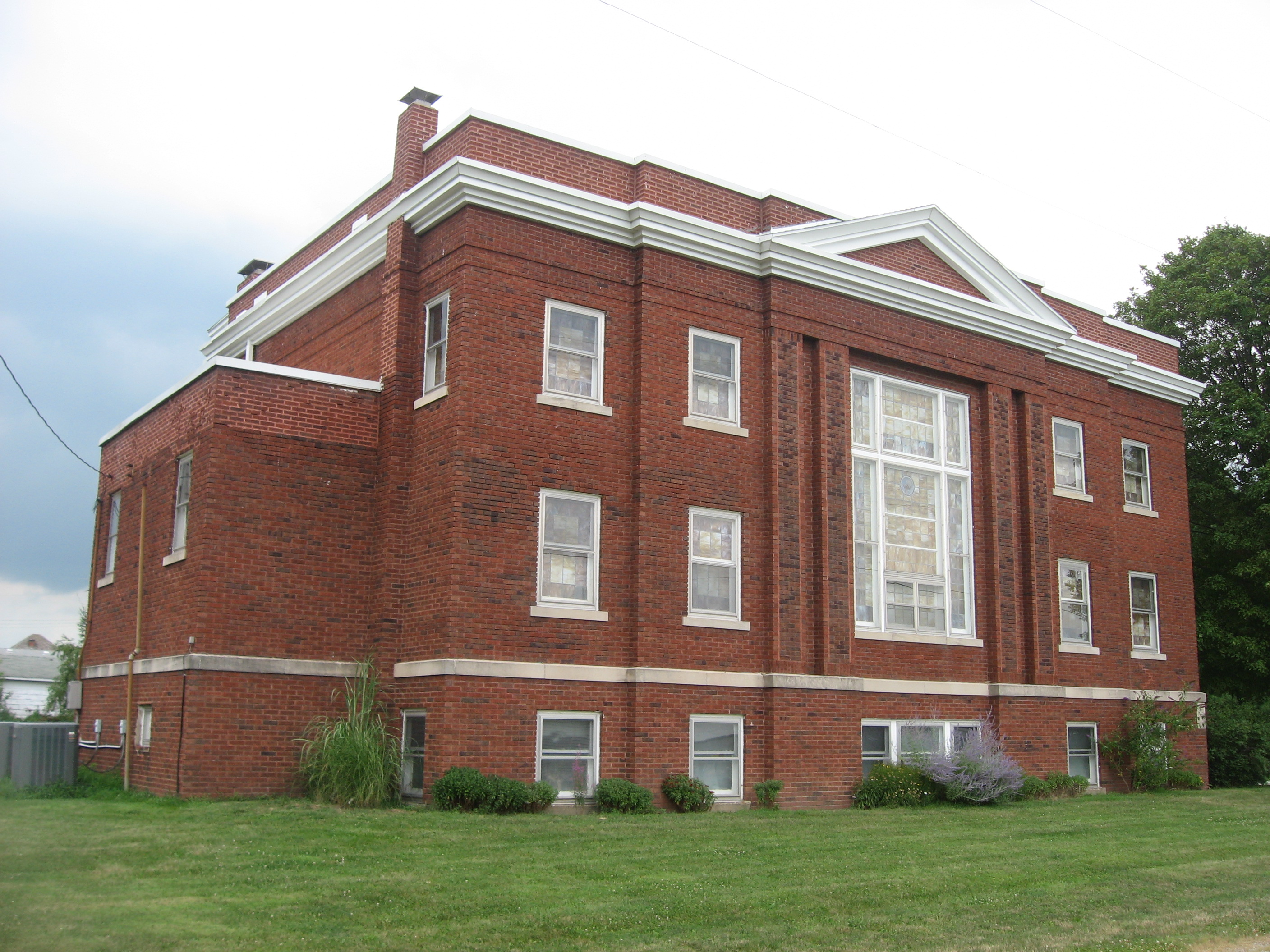 Southern side of the Westervelt Christian Church, located on the northwestern corner of the junction of Main and Chestnut Streets in Westervelt, Illinois, United States. Built in 1921, it is listed on the National Register of Historic Places.